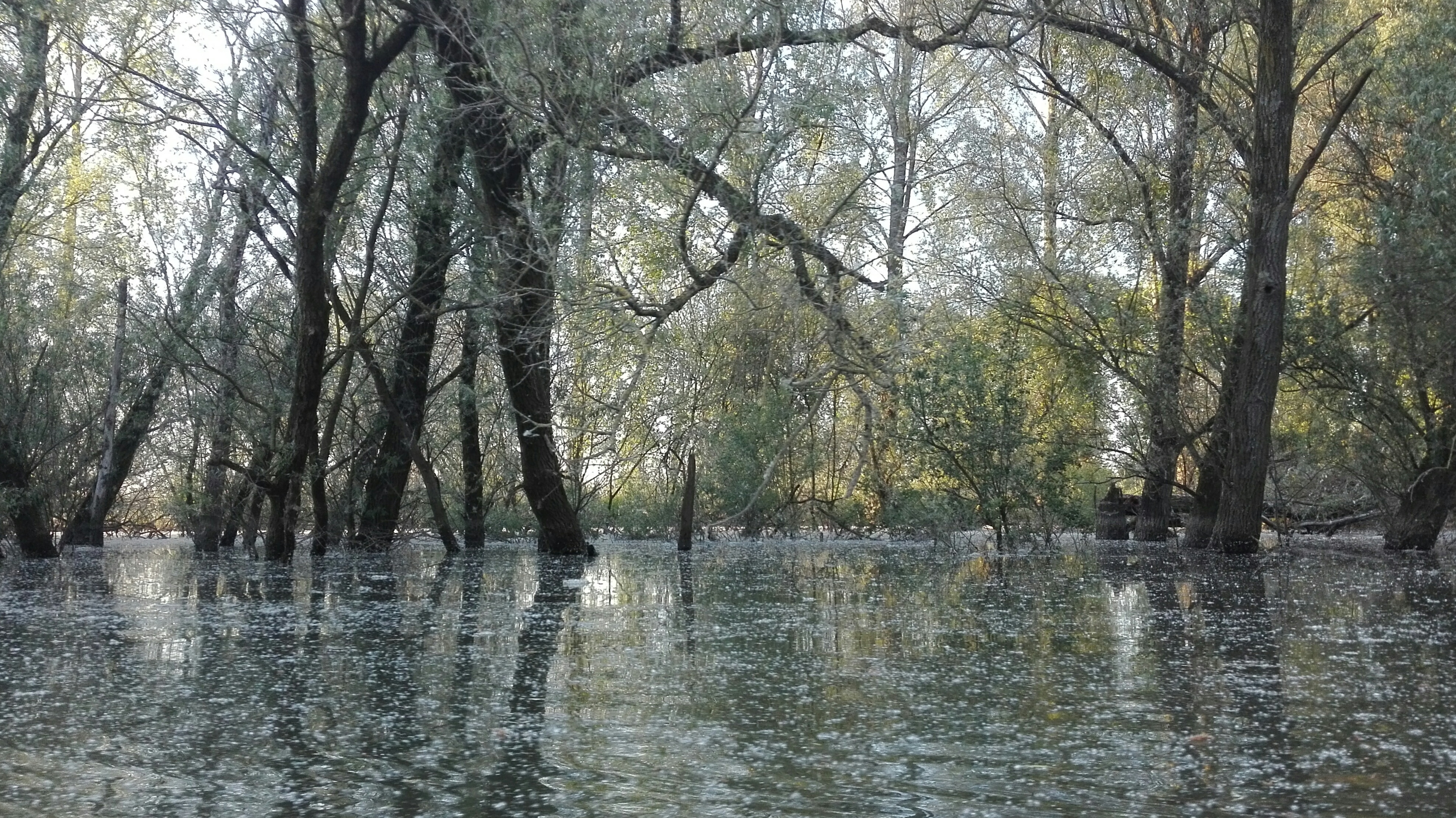 biesbosch